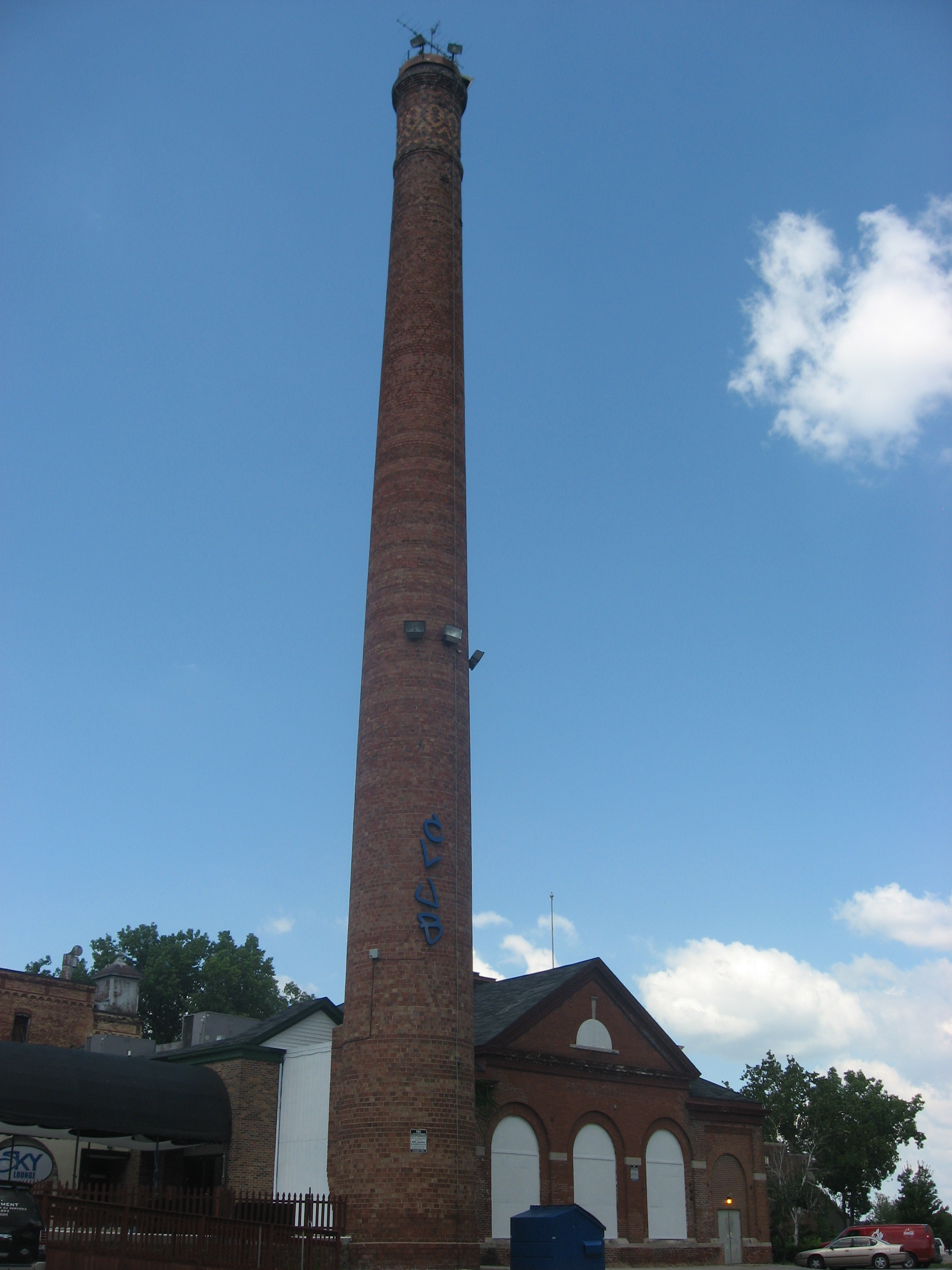 A chimney at the Kamm and Schellinger Brewery, located at 100 Center Street in Mishawaka, Indiana, United States. The complex is listed on the National Register of Historic Places.